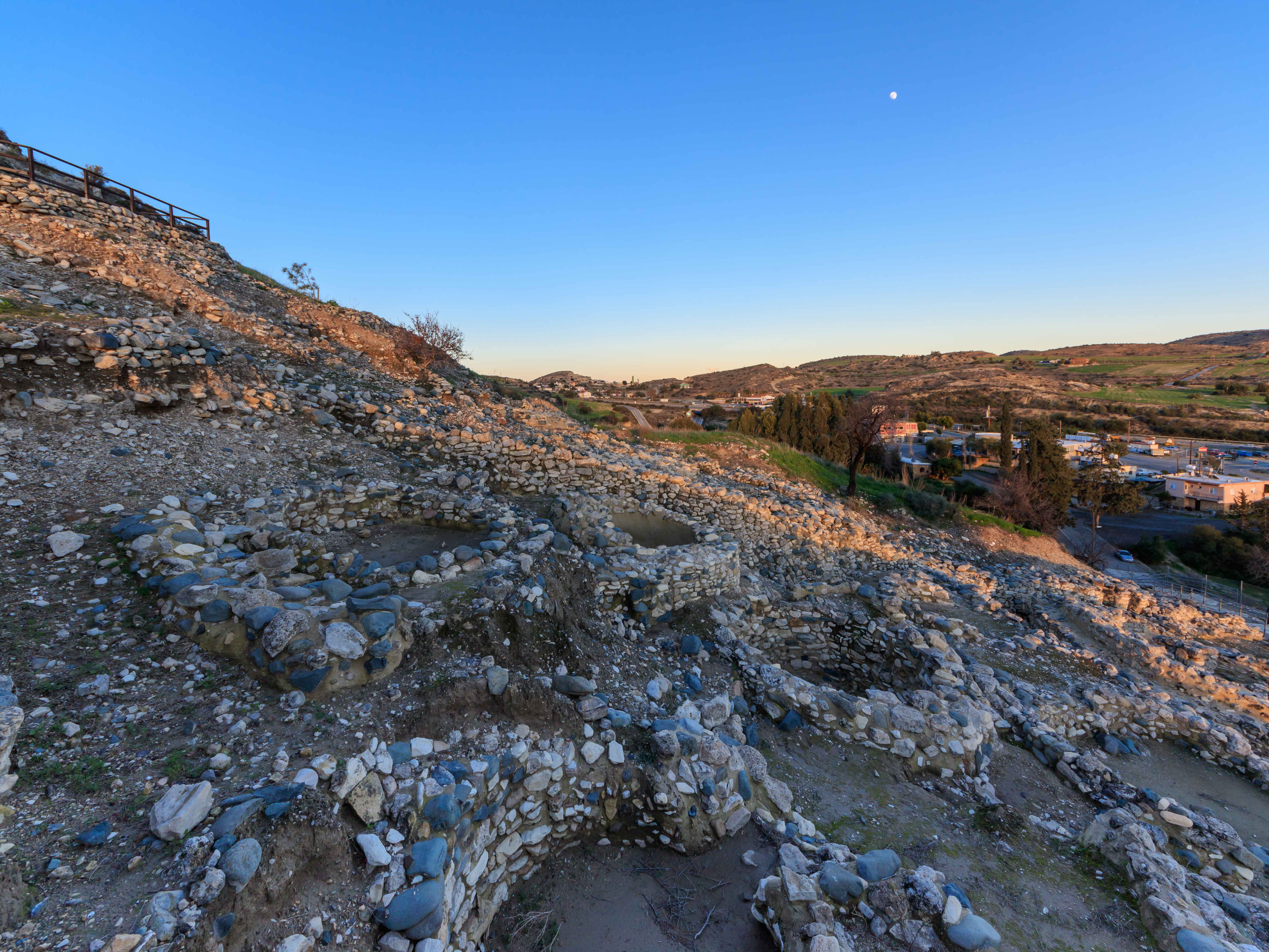 Neolithic Archaeological Site of Khirokitia near Larnaca, Cyprus